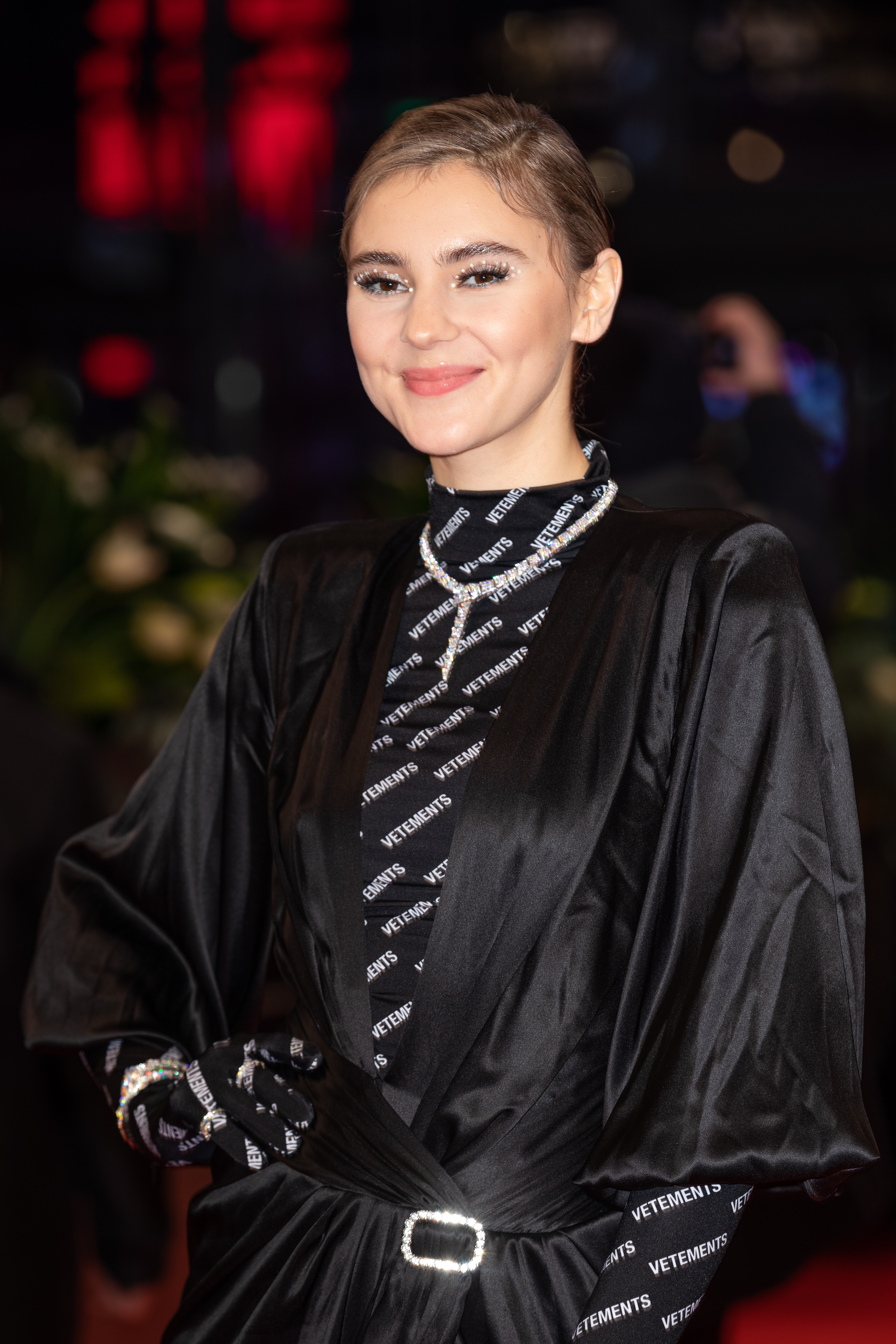 Stefanie Giesinger at the Berlinale 2020